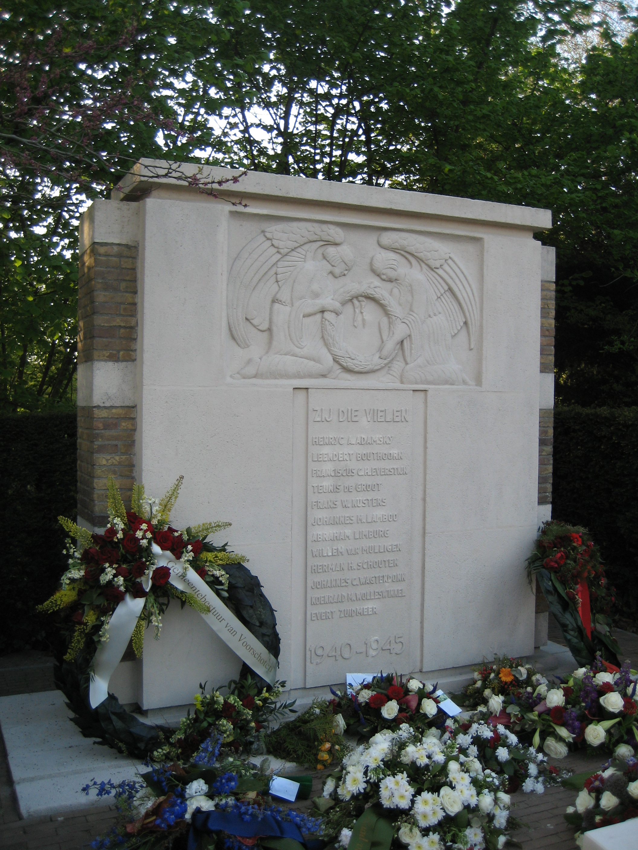 War monument Voorschoten, design Gra Rueb